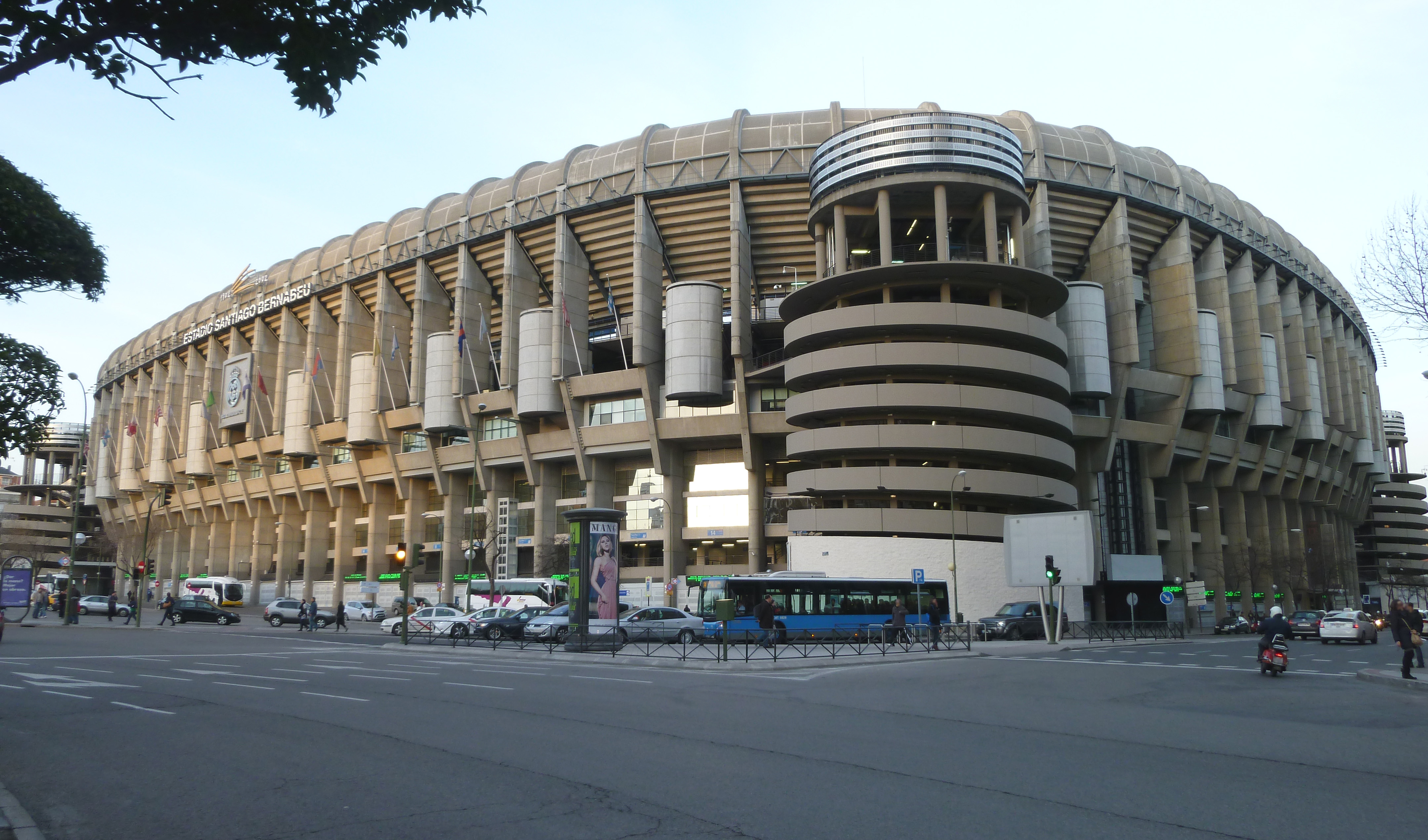 View of Santiago Bernabéu Stadium in Madrid (Spain) from the south-west angle.